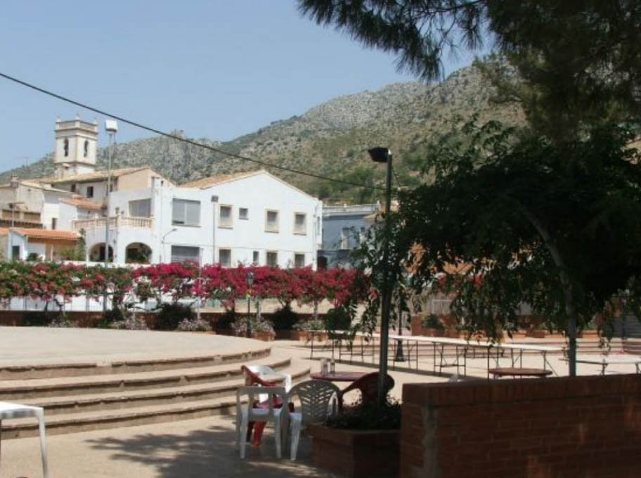 Christ Square, Sanet and Negrals